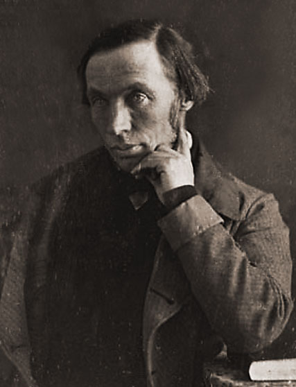 Robert Dale Owen (1801-1877), American utopian socialist and politician. English Daguerreotype, circa 1840s. Daguerreotype portrait of Robert Dale Owen (1801-1877).